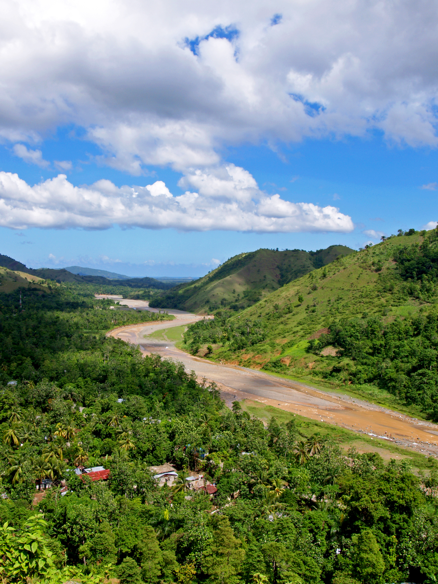 Limbe river as seen from Morne Bambou near Camp Coq facing North